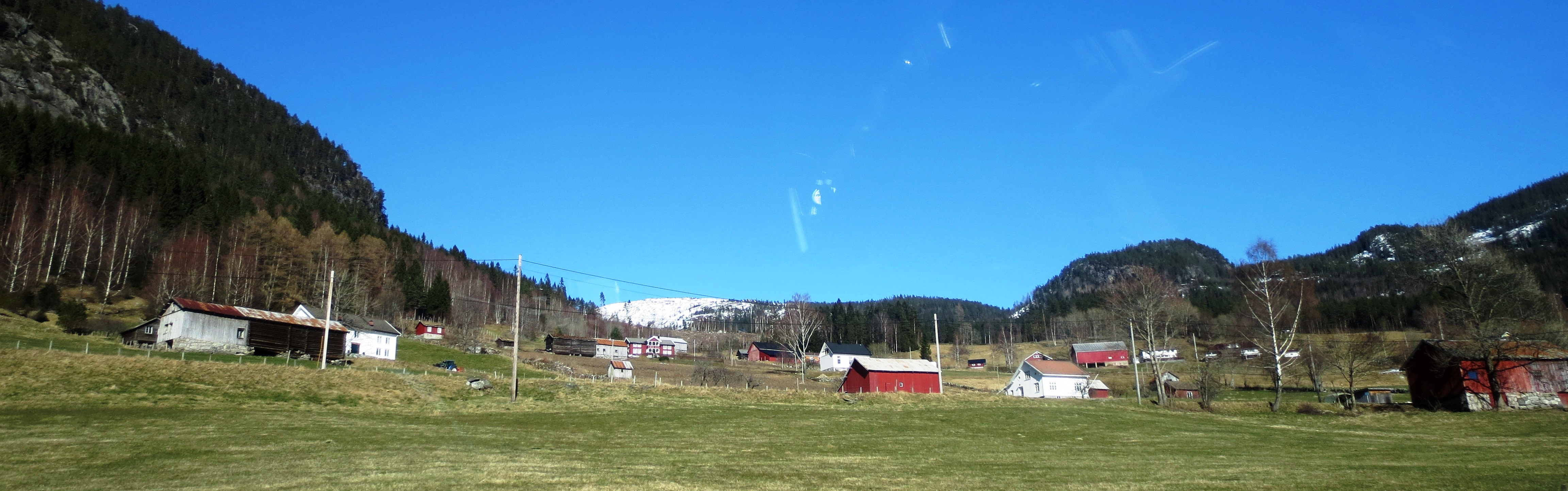 Lauvdal is a small farmer township in Bygland municipality, immediately south of the Bygland settlement. County of Aust-Agder, Norway